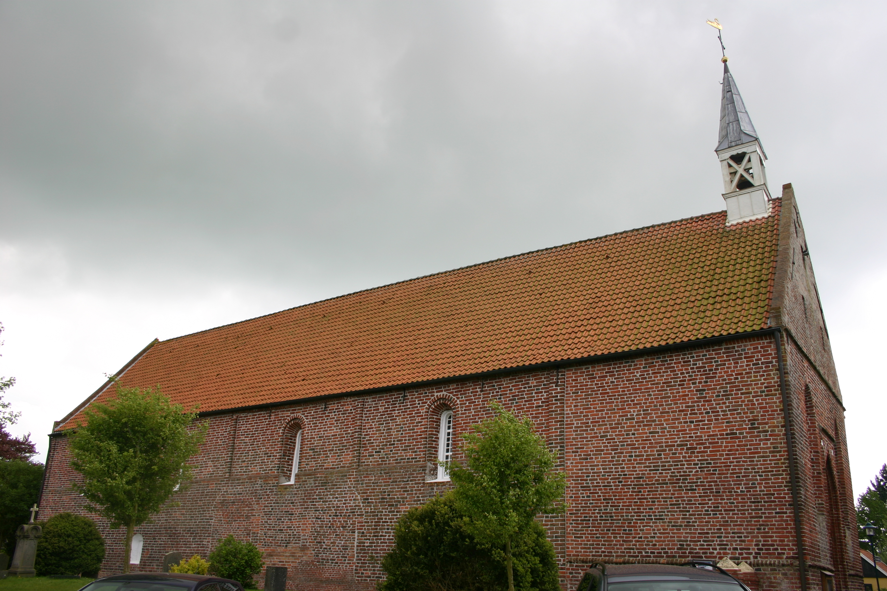 Historic church in Loquard, district of Aurich, East Frisia, Germany